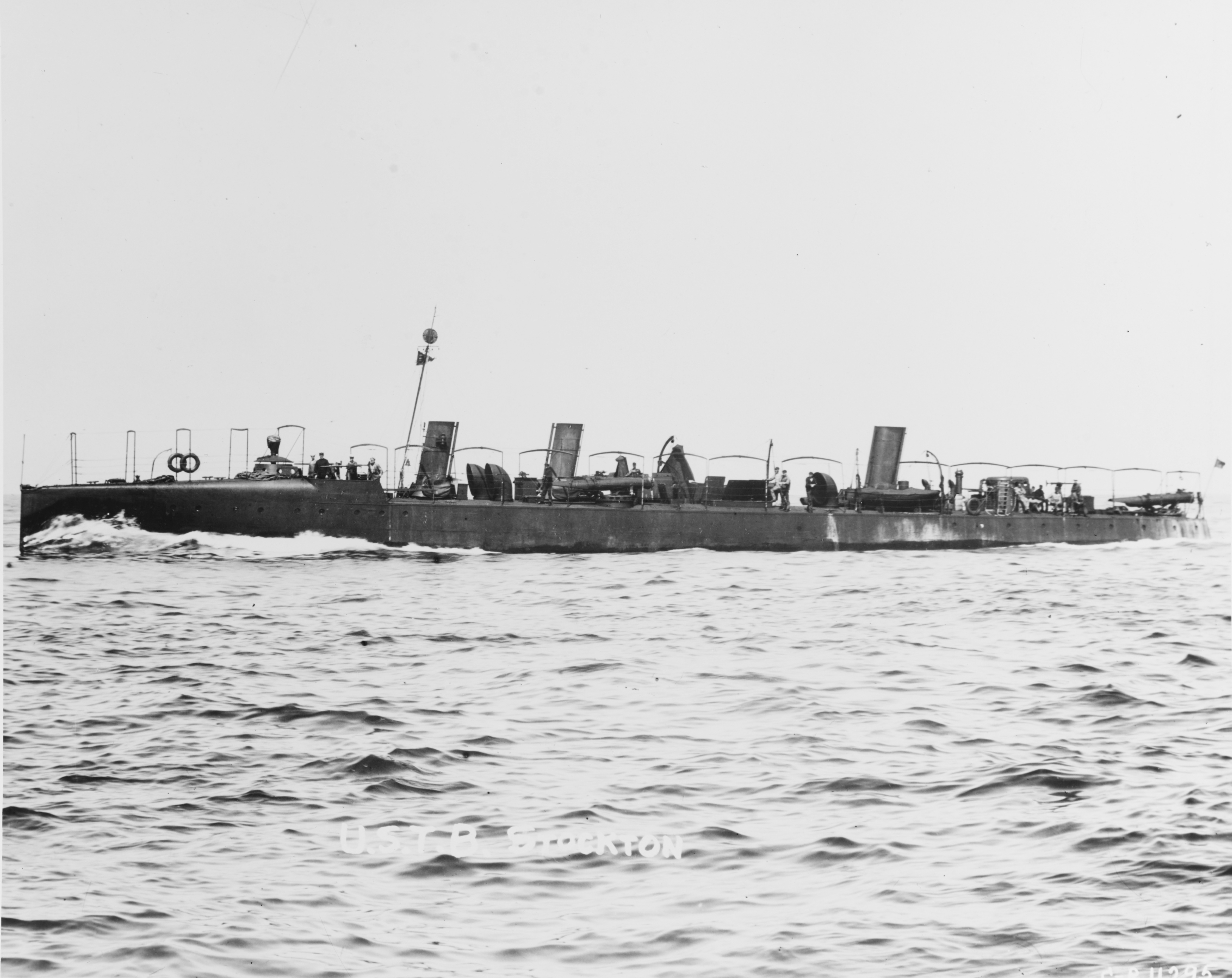 (Torpedo Boat # 32) Underway during the early 1900s. Note the round identification shape carried on her foremast. Photograph from the Bureau of Ships Collection in the U.S. National Archives.